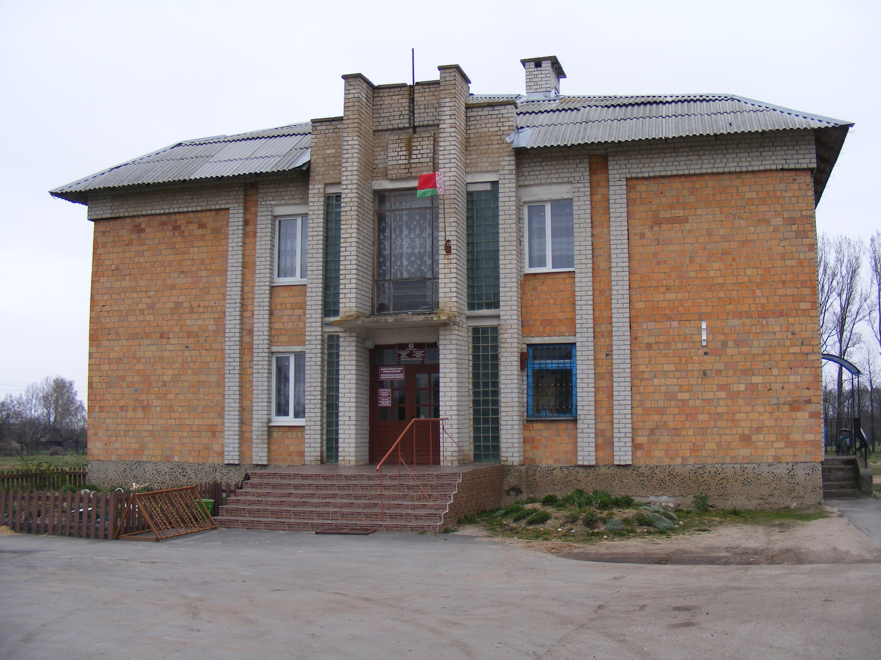 Sielsaviet of Žarabkovičy.